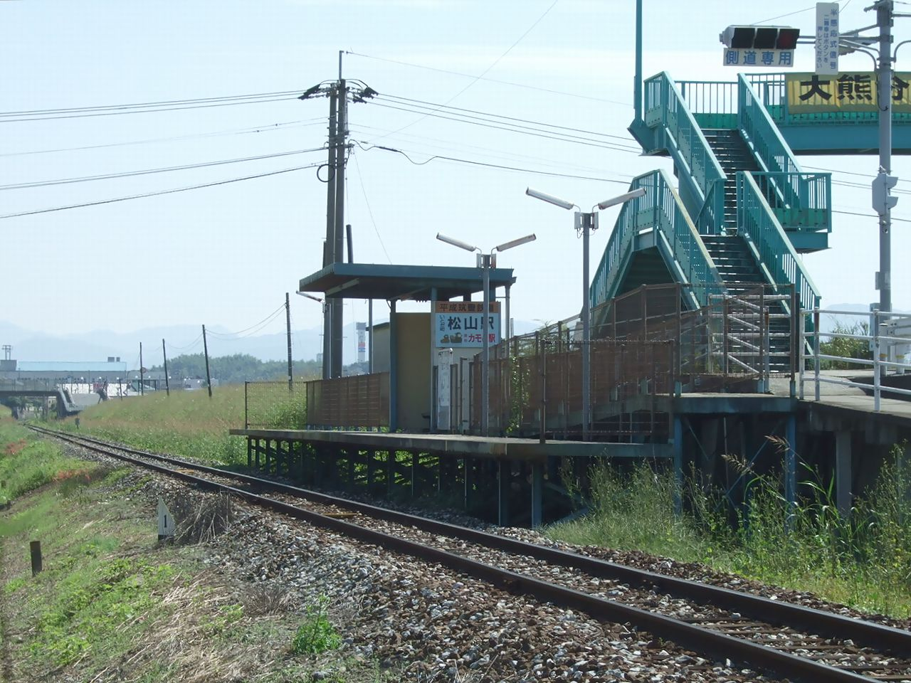 Matsuyama Station, Itoda Line, Heisei Chikuho Railway, Itoda Town, Fukuoka, Japan.